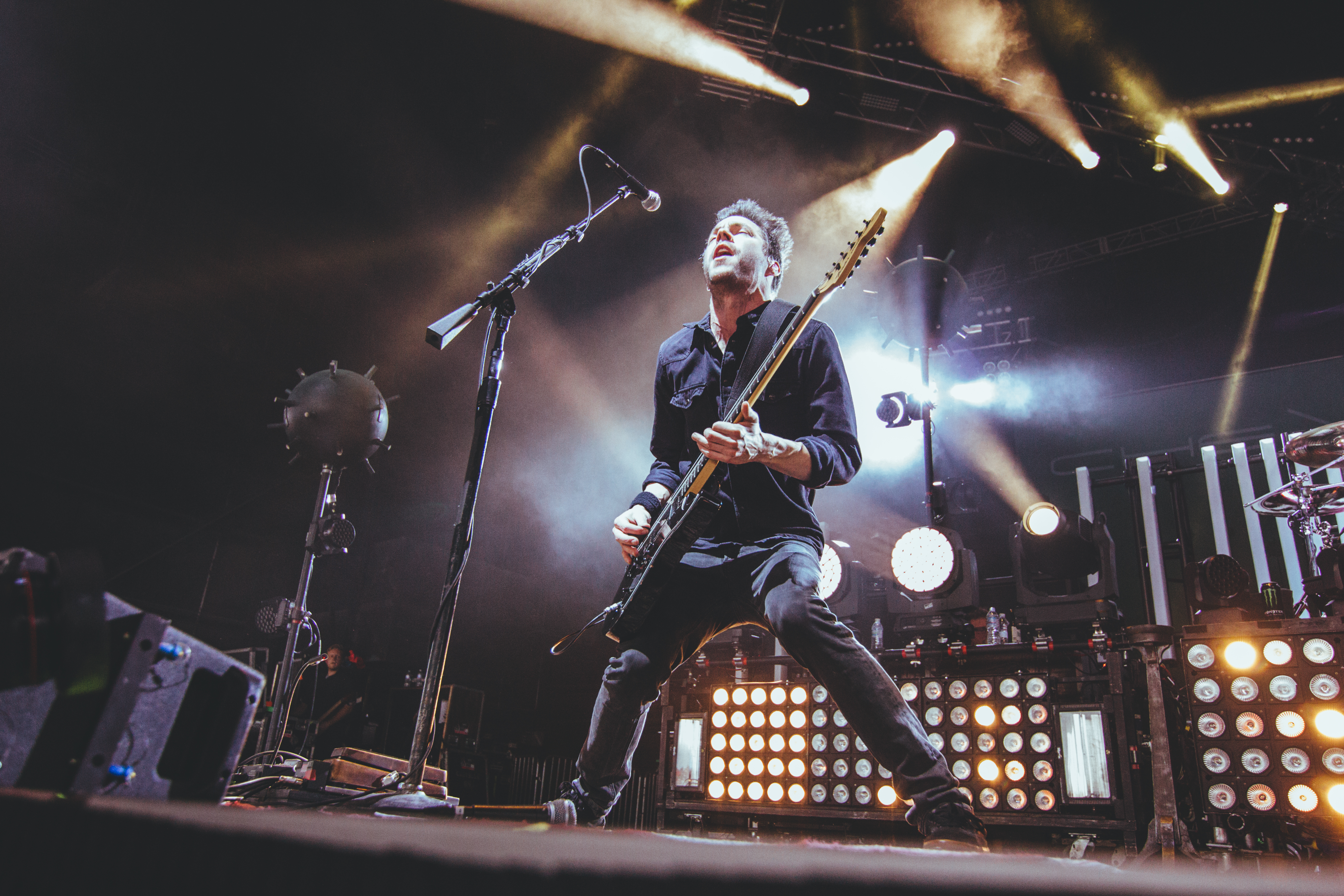 Chevelle-3236